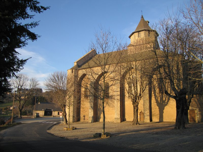 Rieupeyroux church, France, december 2006